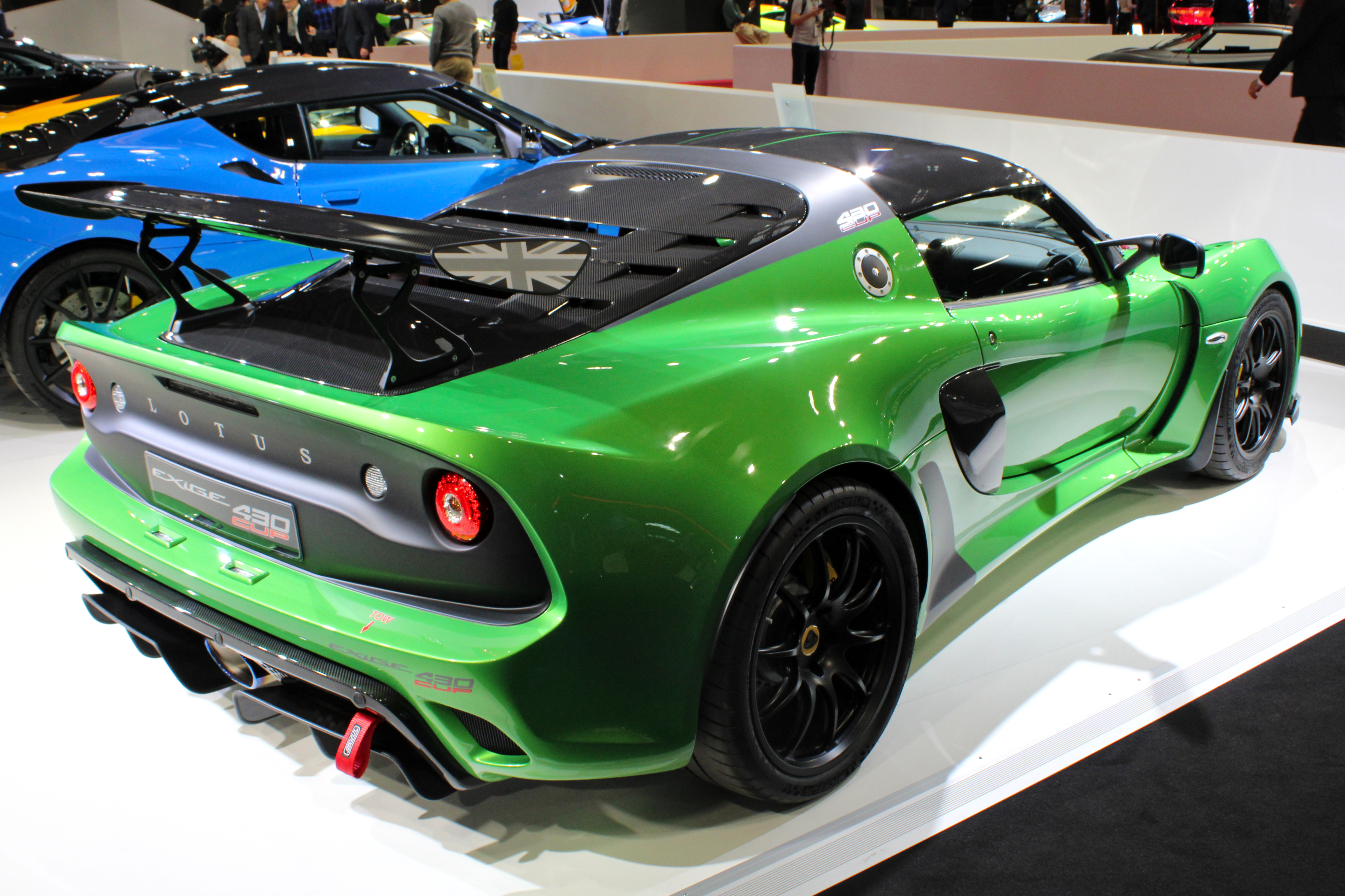 Lotus Exige Cup 430 at Paris Motor Show 2018